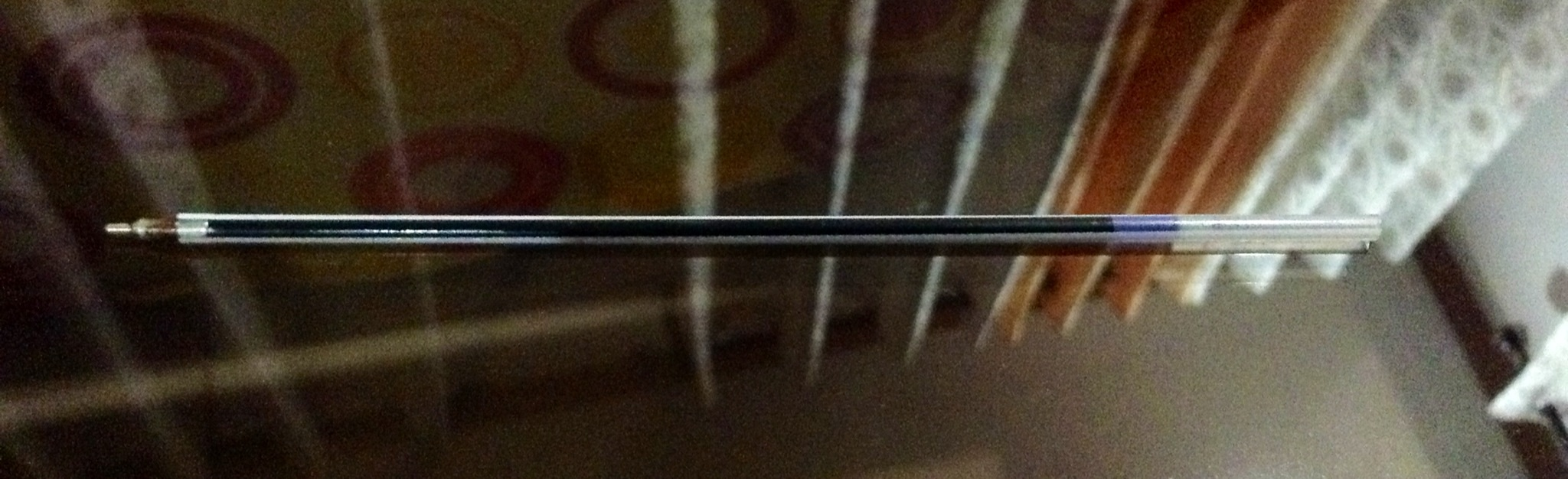 The ink holder of a ballpen.